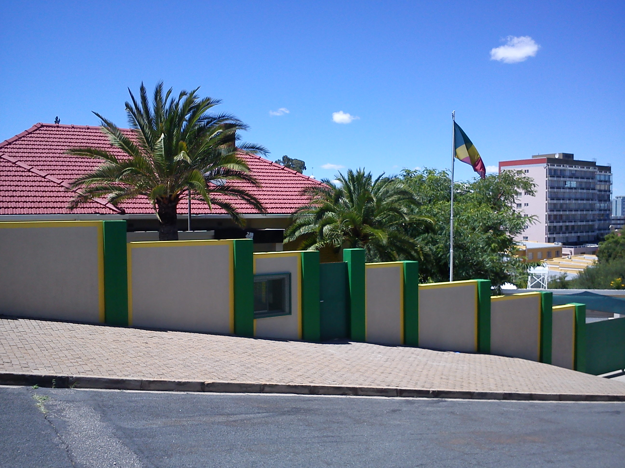 Congloese Emb in Windhoek